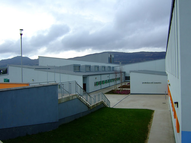 Loreto Community School Loreto Community School, situated outside the town of Milford, is now accommodated in a new school building which opened at the beginning of September 2006.